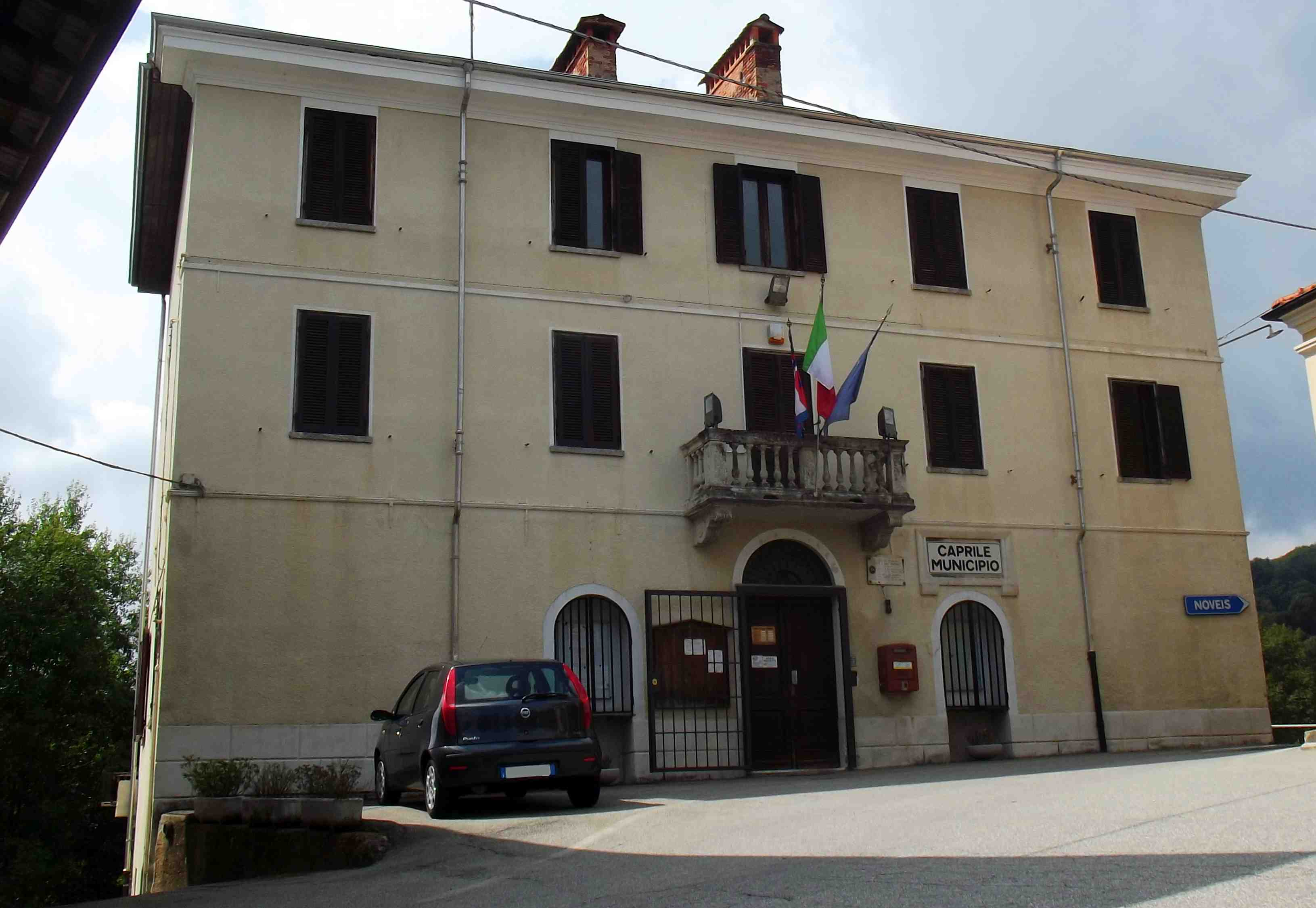 Caprile (BI, Italy): town hall